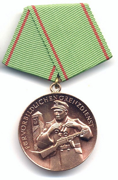 "Medal for Exemplary Border Service" of the GDR Border Troops until 1990, here third type of the medal.